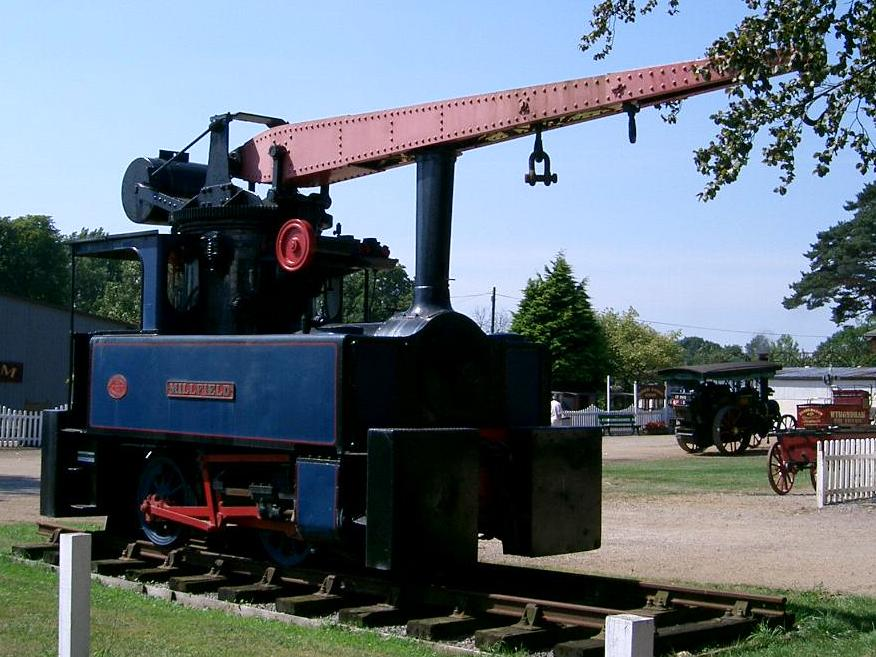 A Robert Stephenson and Hawthorn crane tank at Bressingham